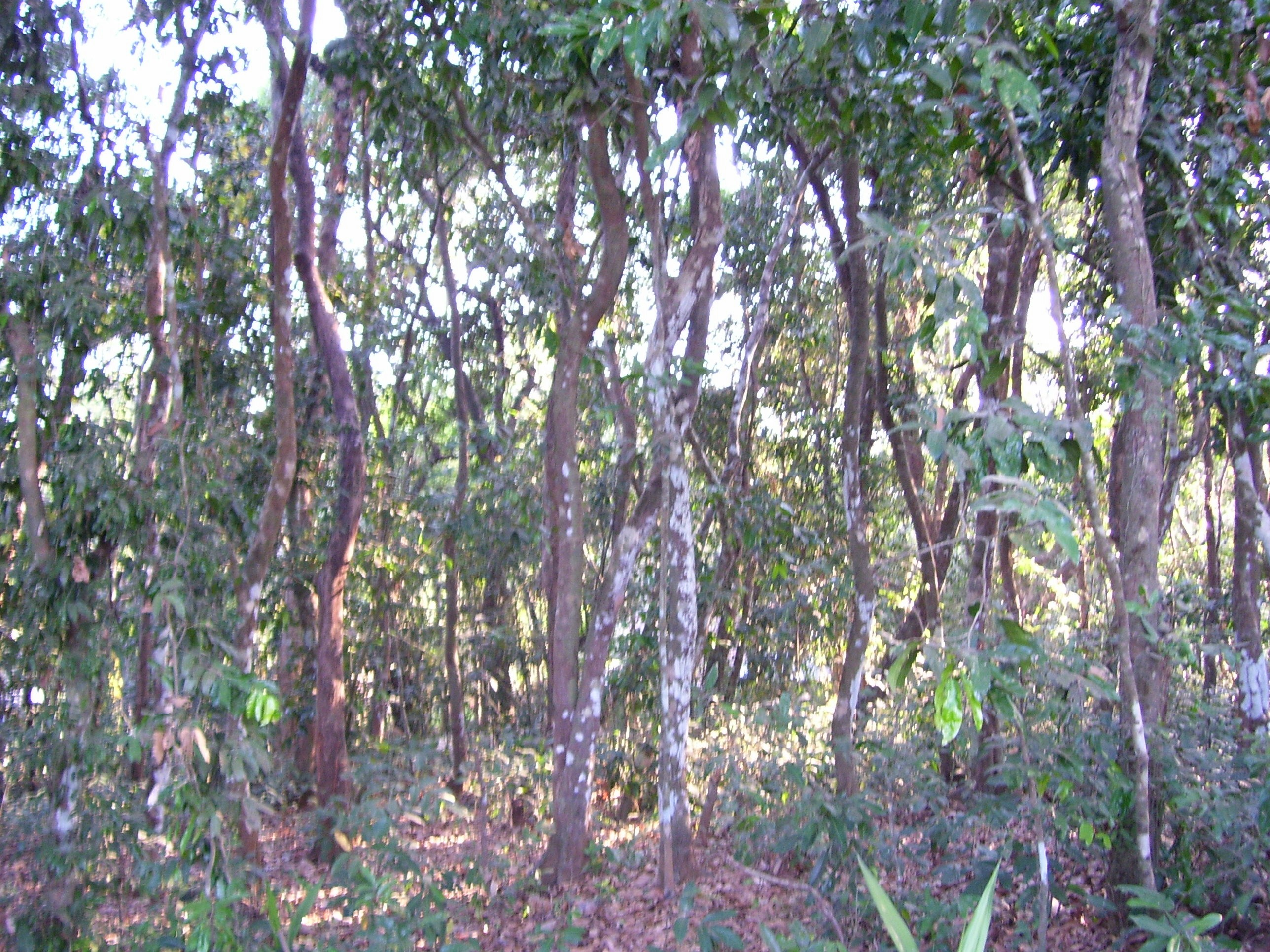 Ebony Tree Forest at Krishnapura (Karnathaka, India).